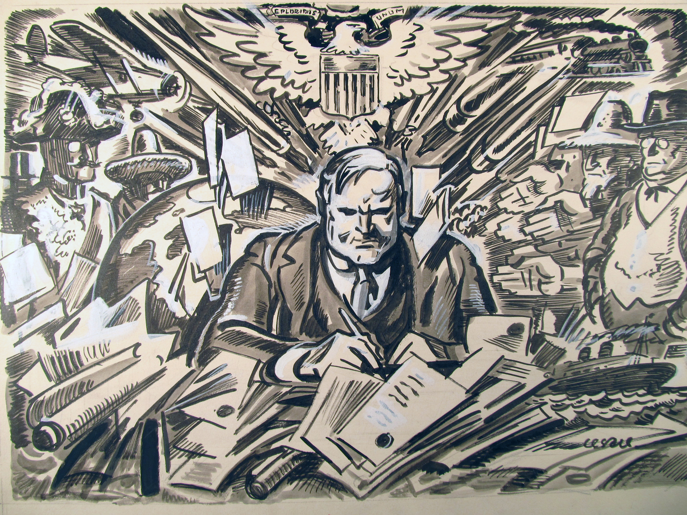 Herbert Hoover as the new President,illustration for March 17, 1929.by Oscar Cesare.original drawing.01.detail.